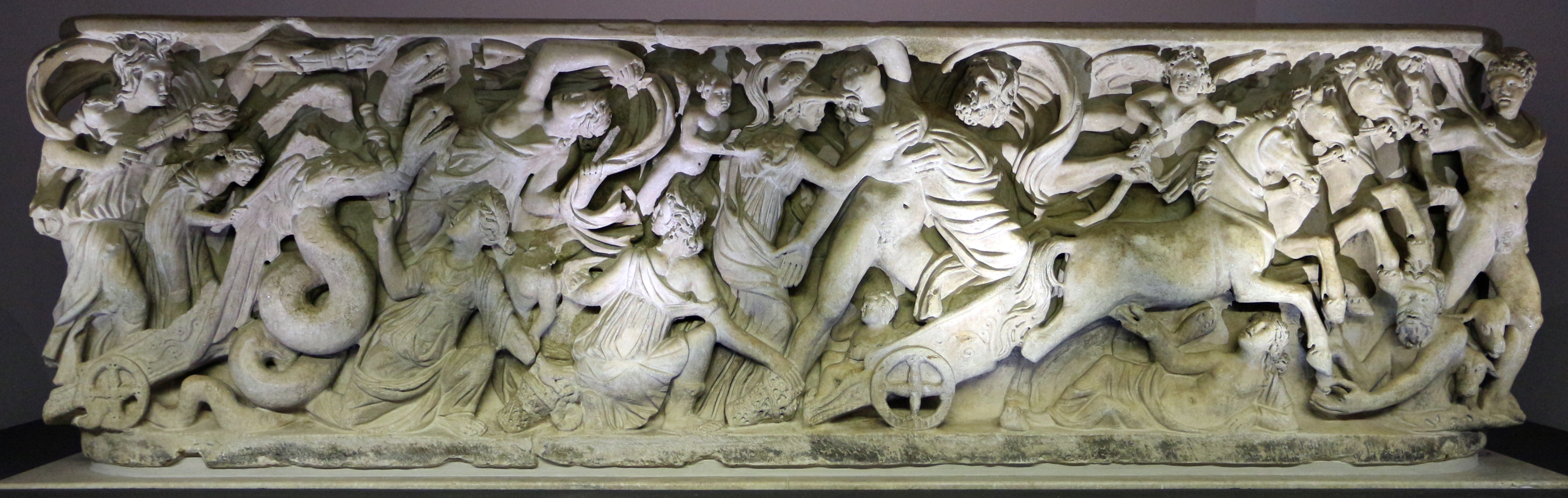 Domschatz, Aachen